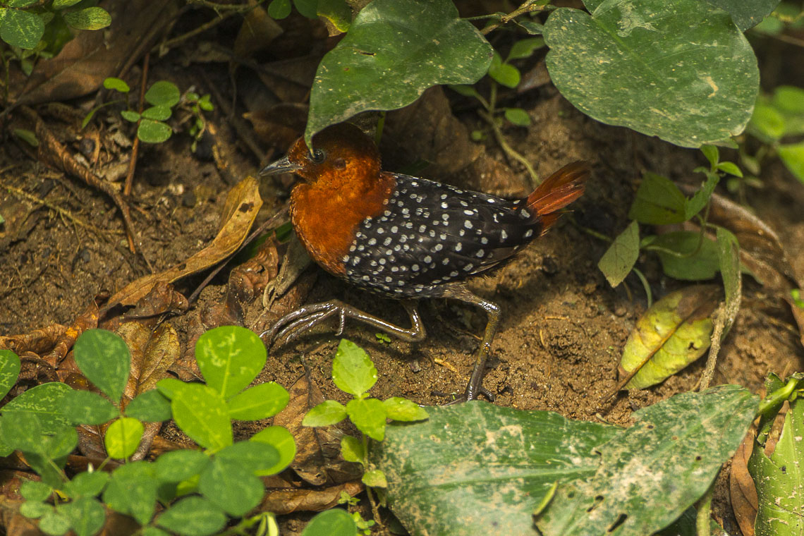 A White-spotted Flufftail (Sarothrura pulchra) near of the Kakum National Park (Ghana)